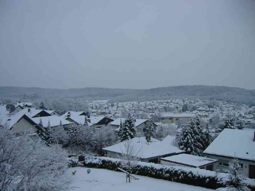 Dielheim, Germany, in the winter.